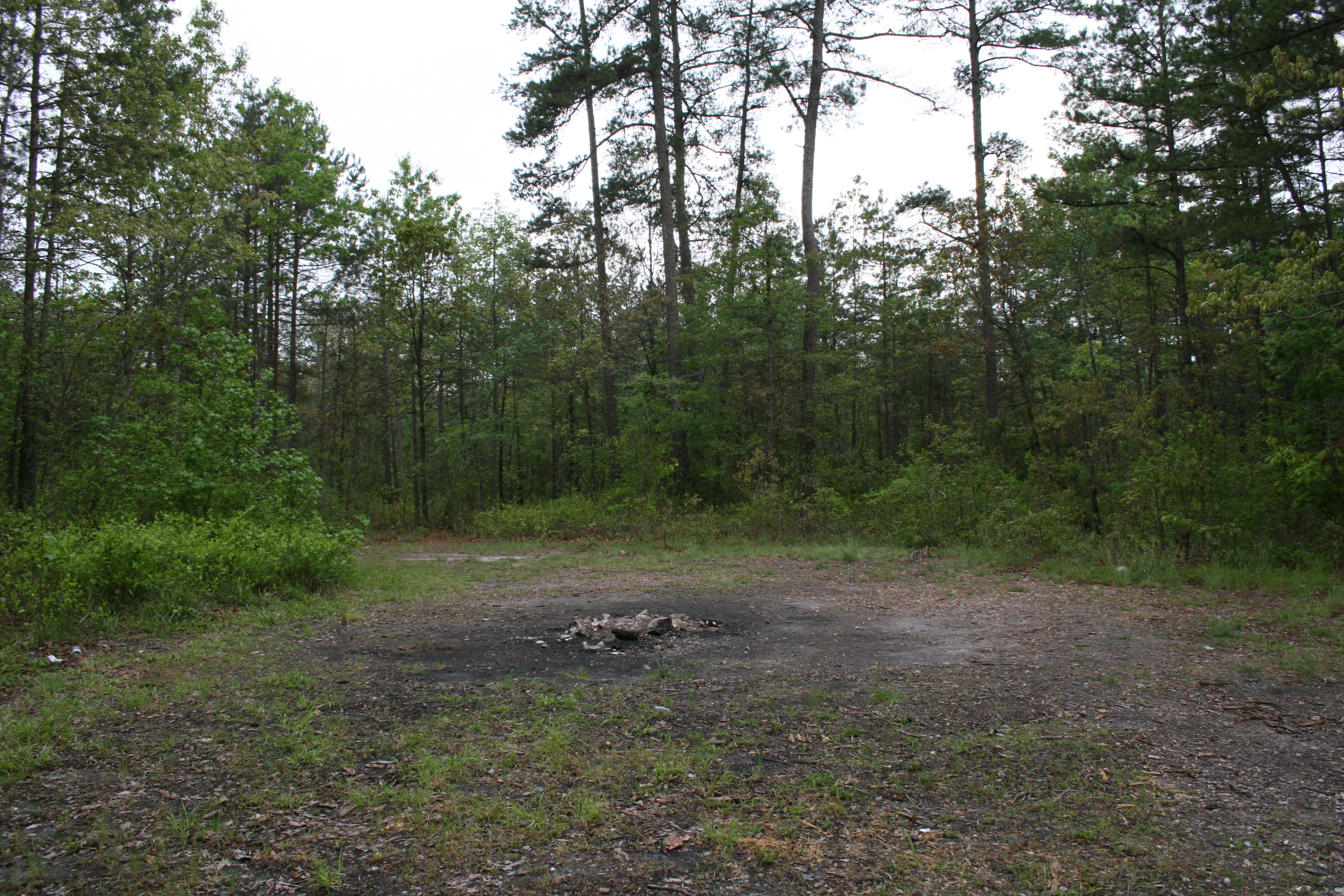 I took this photo myself on May 5, 2007. Therefore, I am the copyright holder.